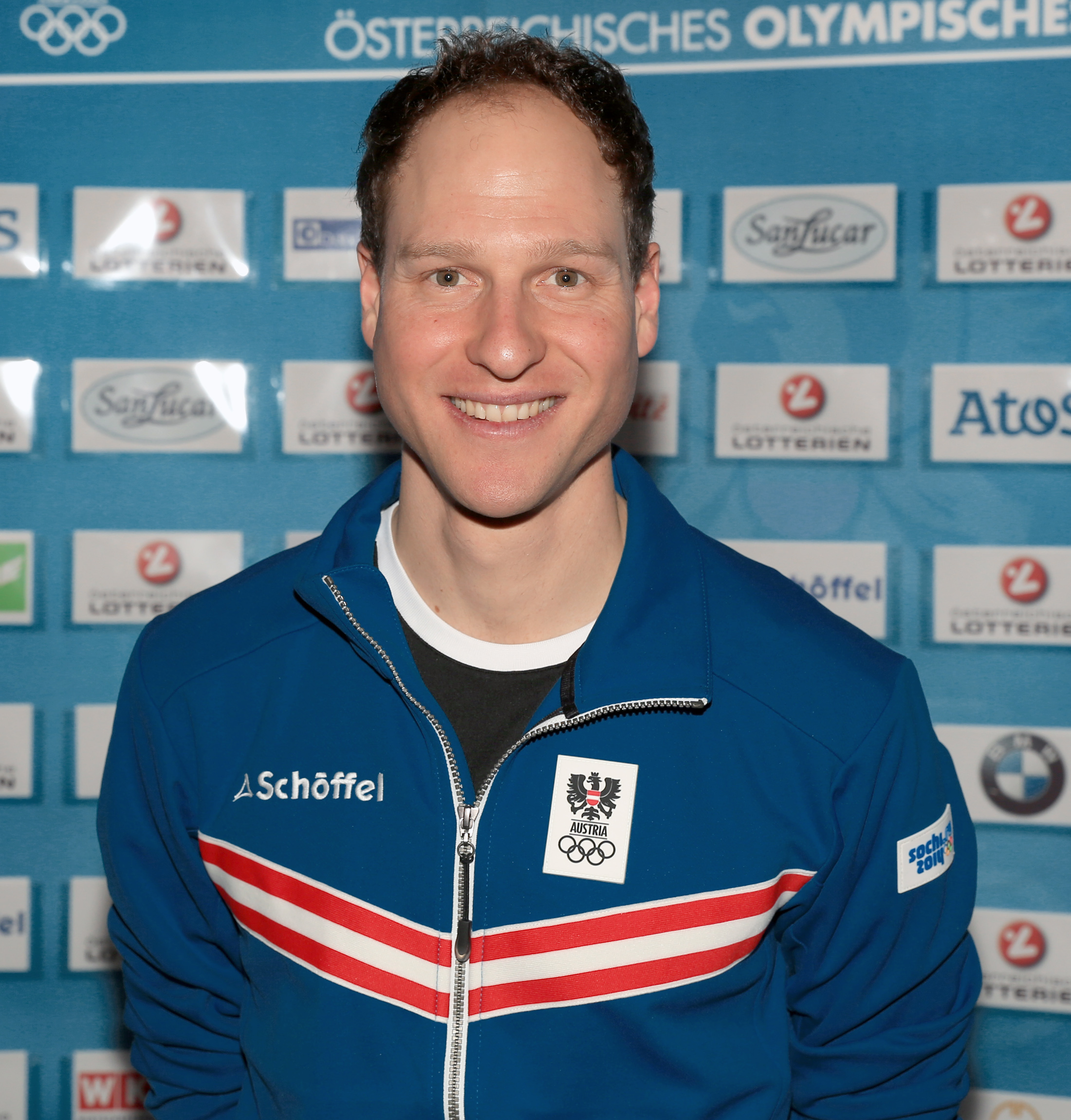 Bernhard Gruber at the outfitting of the Austrian team for the 2014 Winter Olympics (Hotel Marriott in Vienna, Austria.